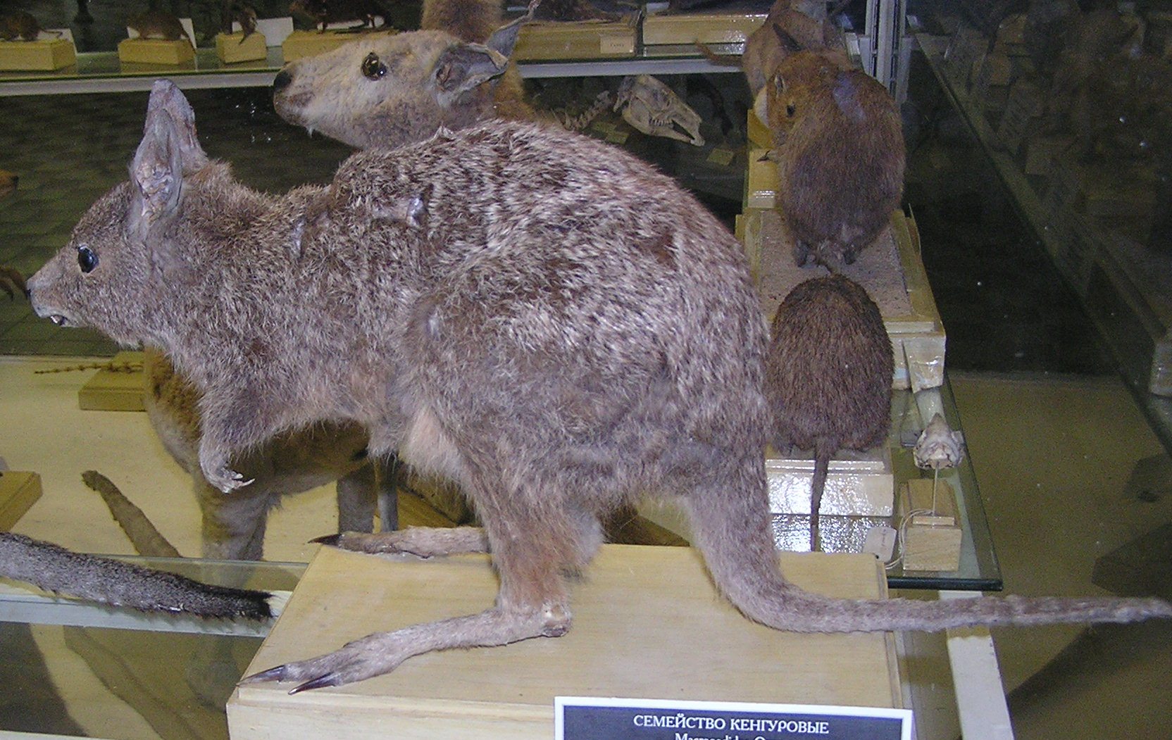 Zoological Museum in St. Petersburg. Ordinary hare kangaroo